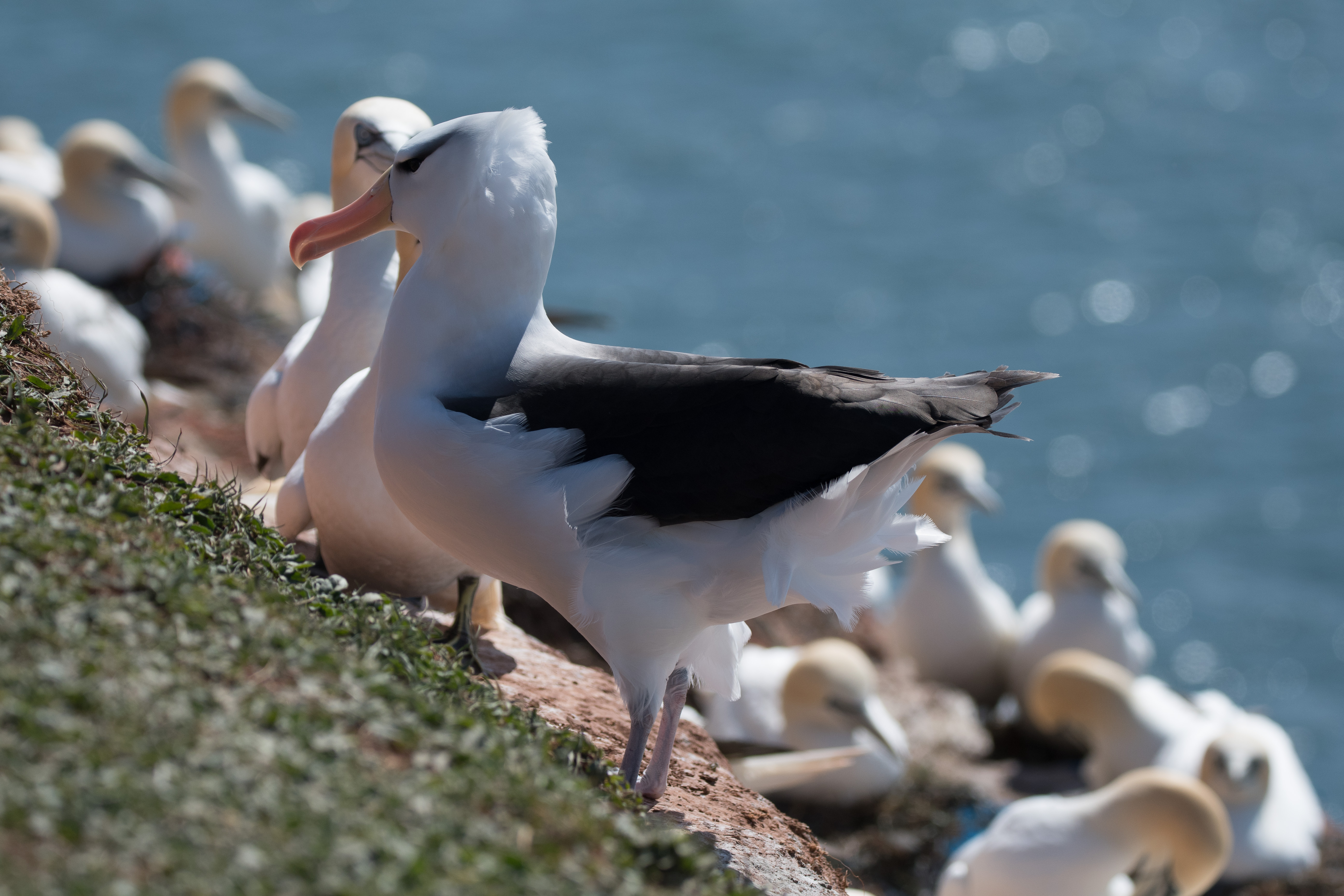 Ultra rare sight of a Black-browed Albatross (Thalassarche melanophris) in the northern Hemisphere. This bird is visiting Heligoland in spring now for the fourth consecutive year. Picture taken with a Nikon D500 & Sigma 150-600mm Contemporary.